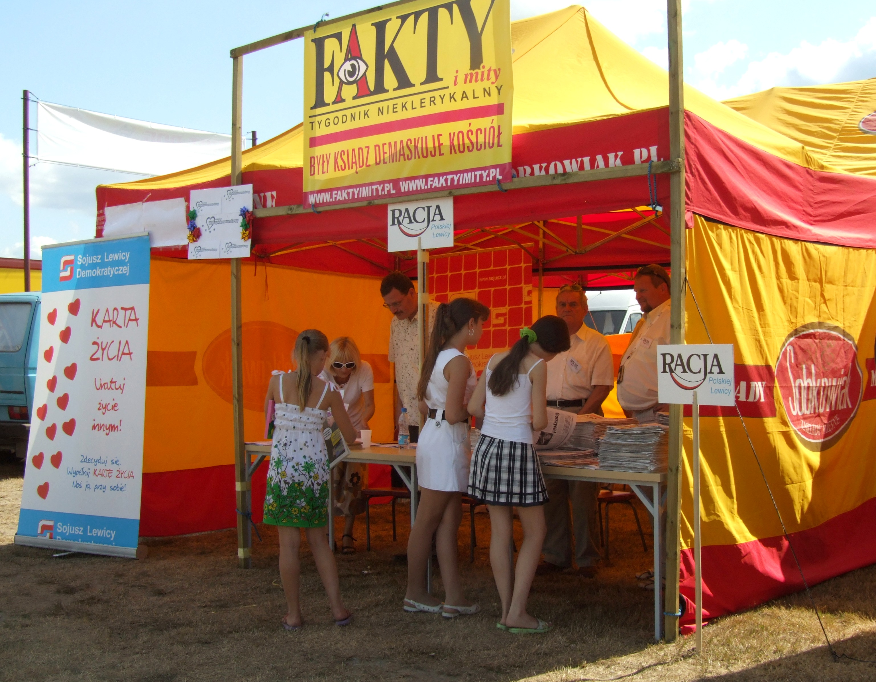 A stand advertising the left-wing magazine "Fakty i Mity" during the "Pig days" at the village of Siedlec near Wolsztyn, Poland